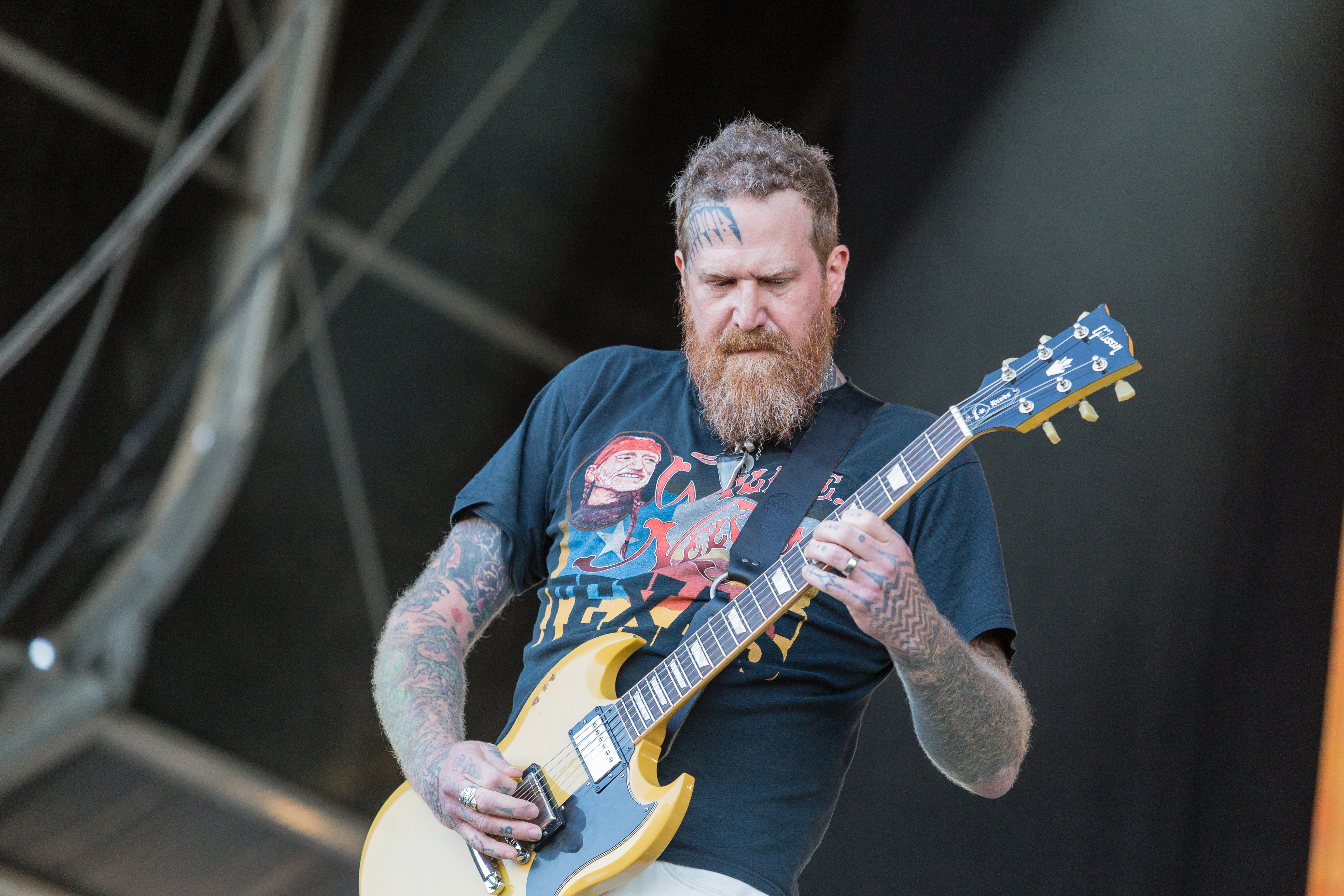 Nova Rock 2017 Brent Hinds from Mastodon at the Nova Rock 2017